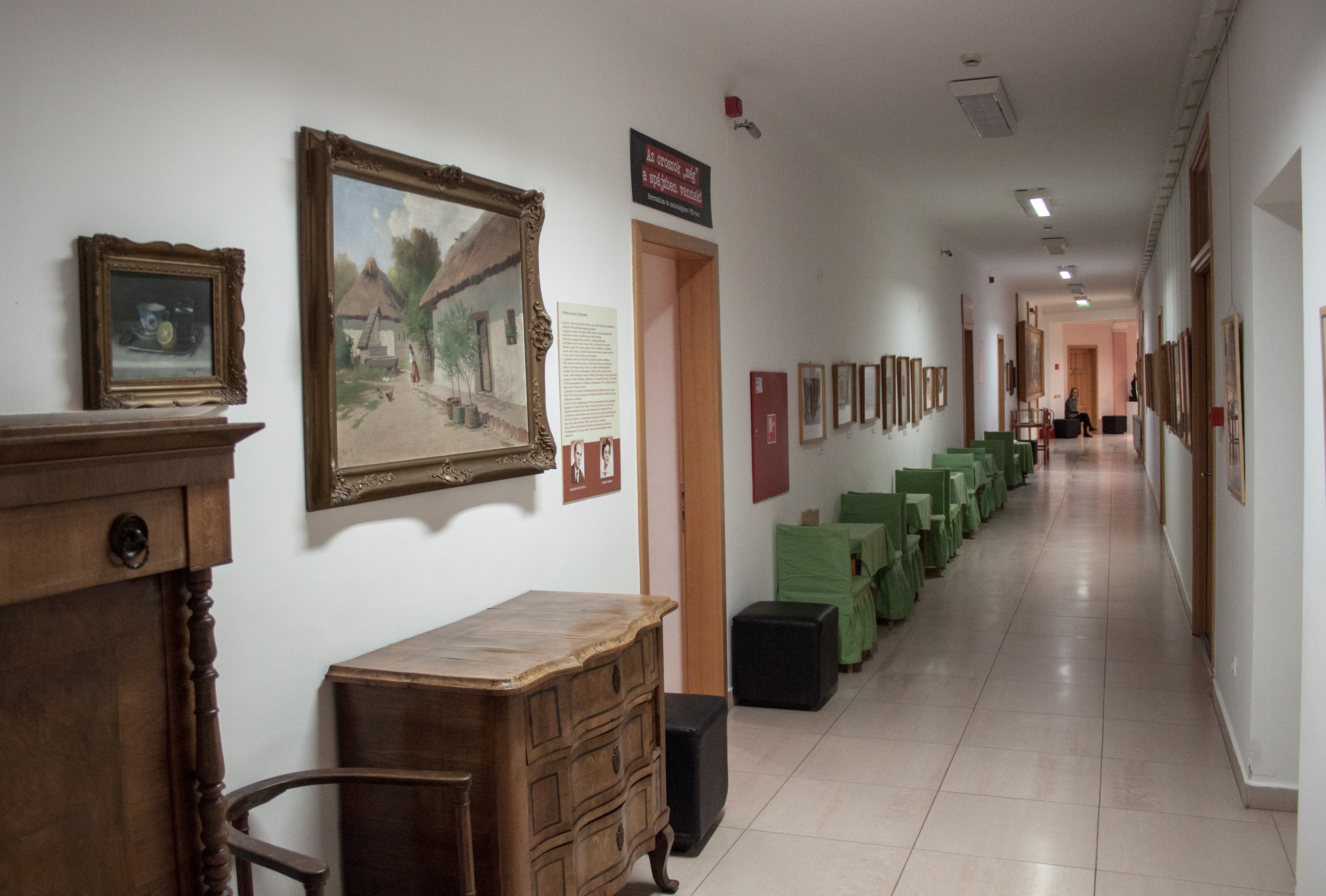 Corridor of the András Jósa Museum